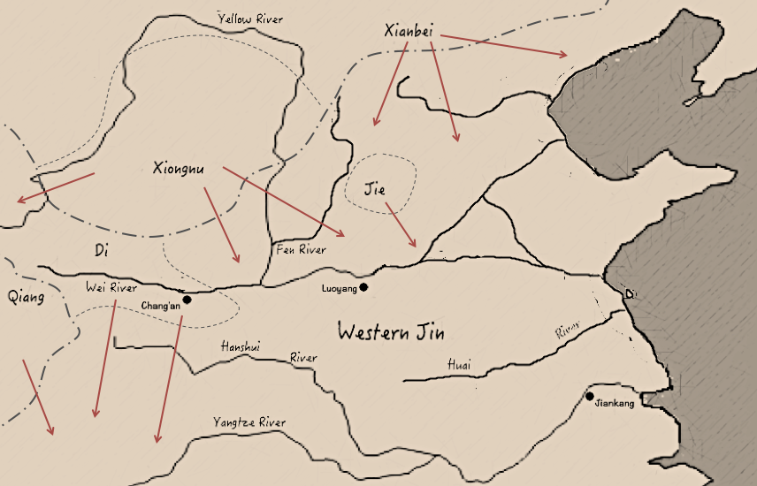 Map showing the Uprising of the Five Barbarians in Jin dynasty. 中文（中国大陆）: 五胡乱华永嘉之乱示意地图